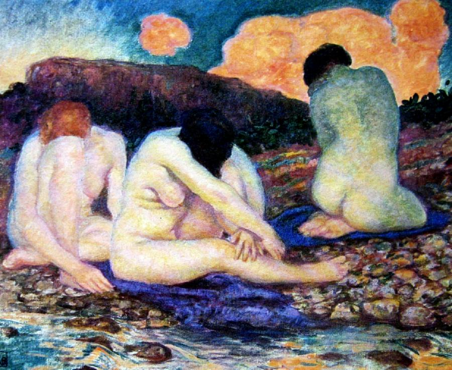 Heliades Oil on canvas, signed with monogram lower left, 59 x 71 cm